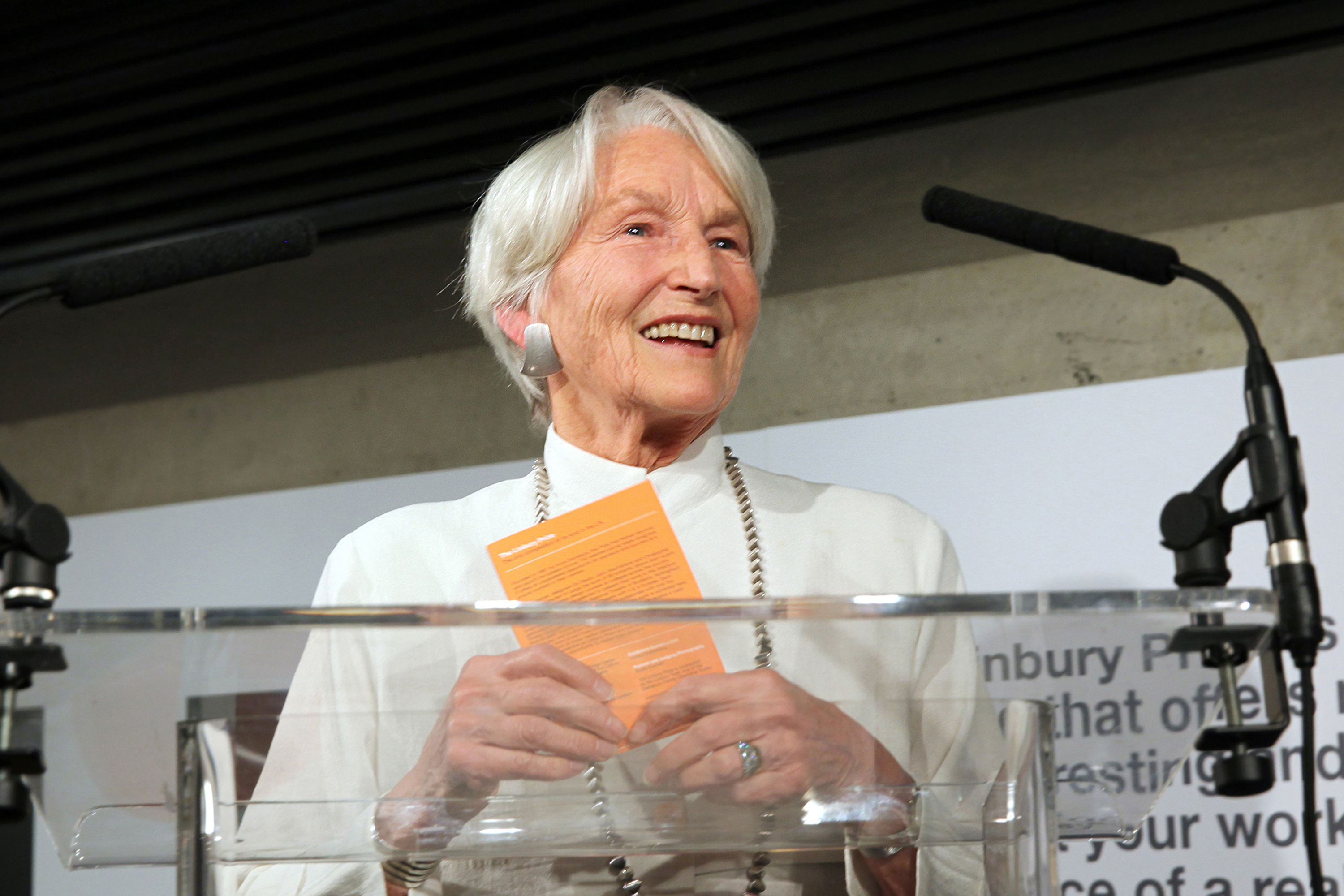 Anya Linden (Anya (née Eltenton), Lady Sainsbury of Preston Candover) (1933-), Ballet dancer; wife of John Davan Sainsbury, Baron Sainsbury of Preston Candovercredit : Sheila Burnett